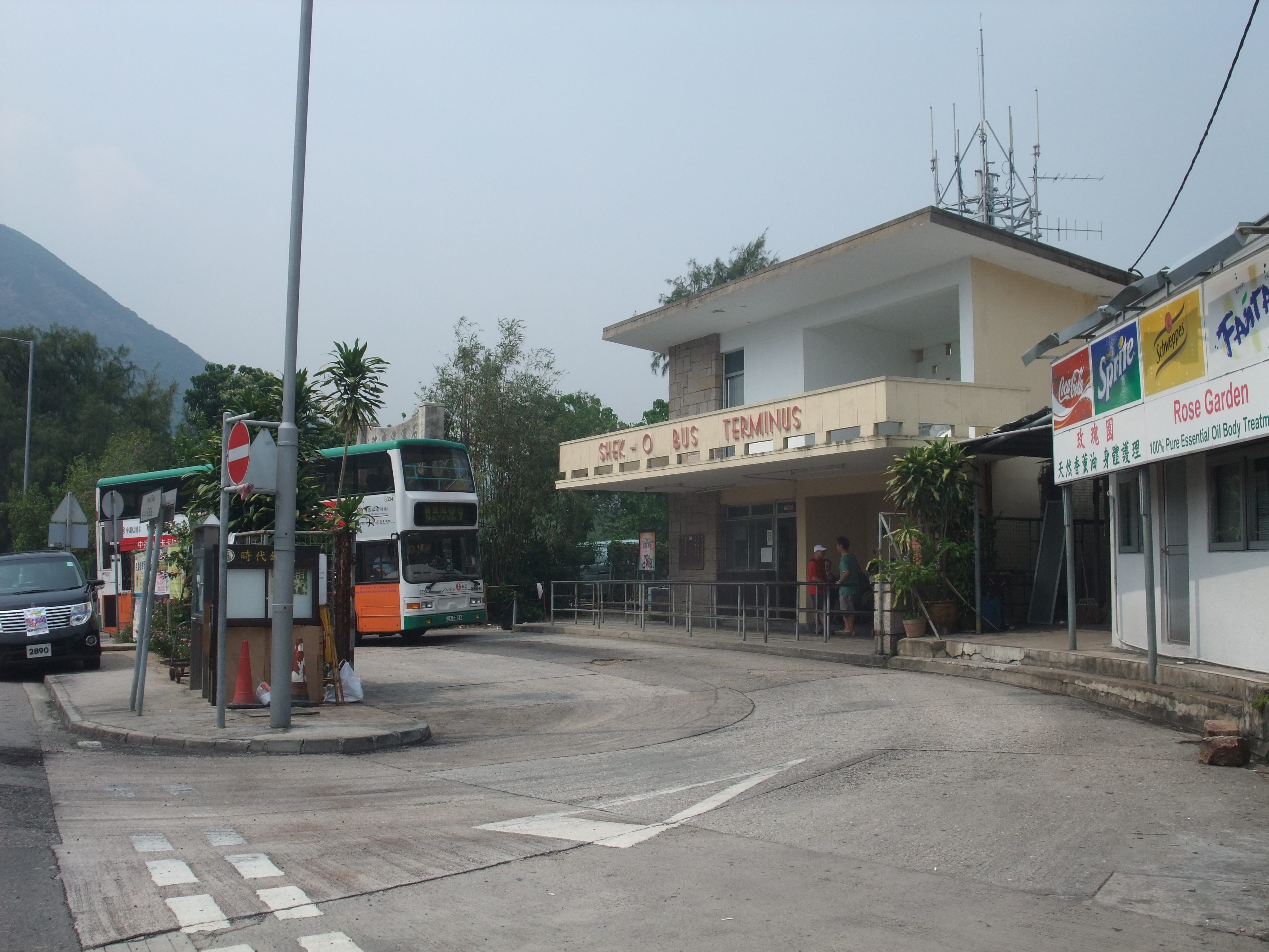 Photo of Shek O Bus Terminus